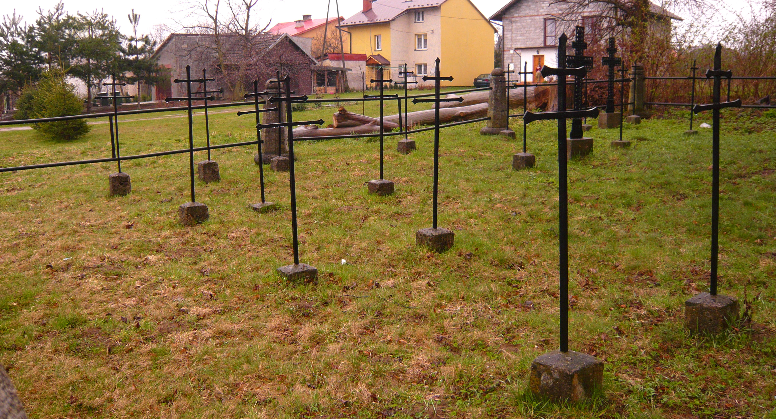 I WW cementery Krzeczów